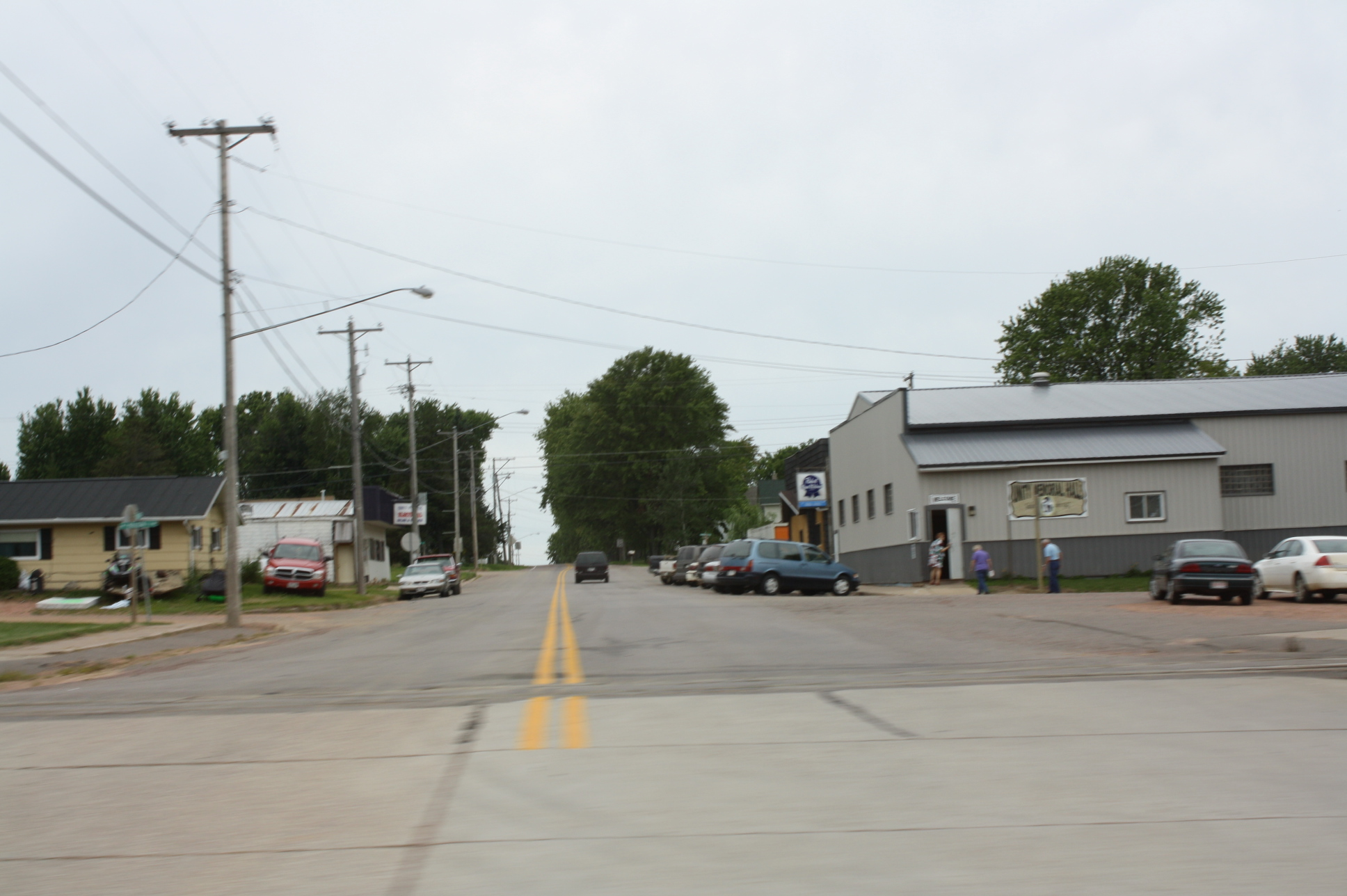 Downtown Unity, Wisconsin from Wisconsin Highway 13.